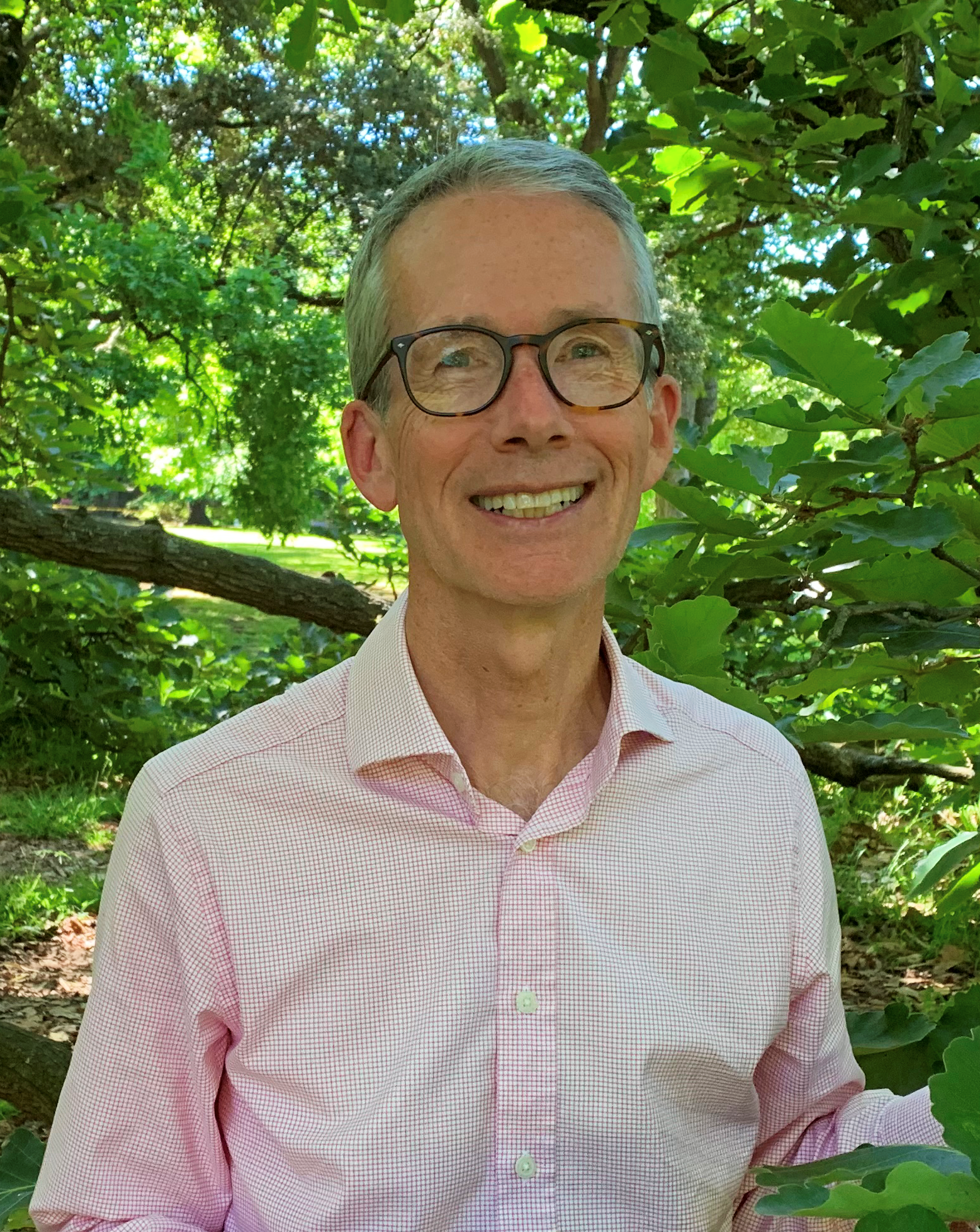 Tim Entwisle on Oak Lawn at Melbourne Gardens